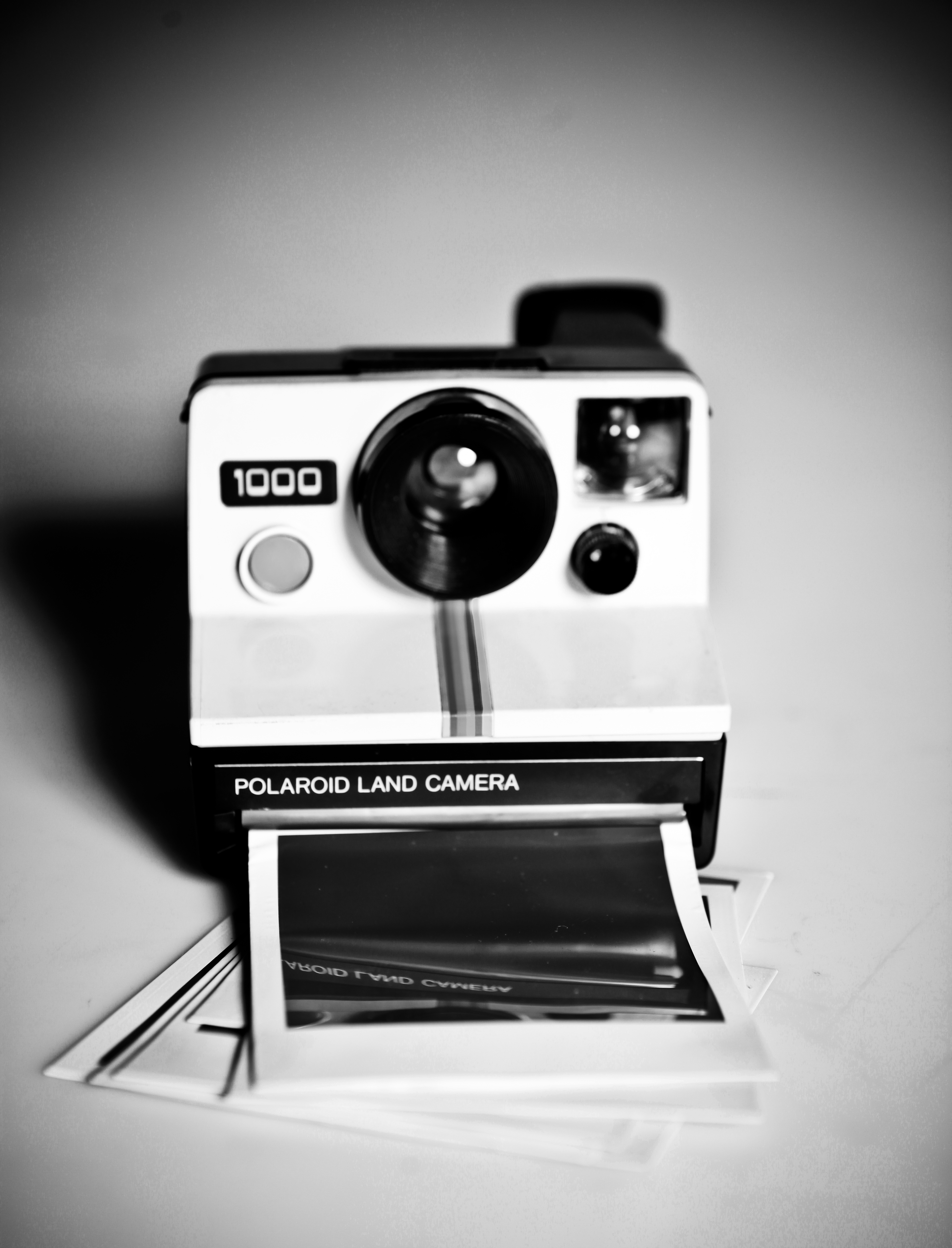 Polaroid Land Camera 1000